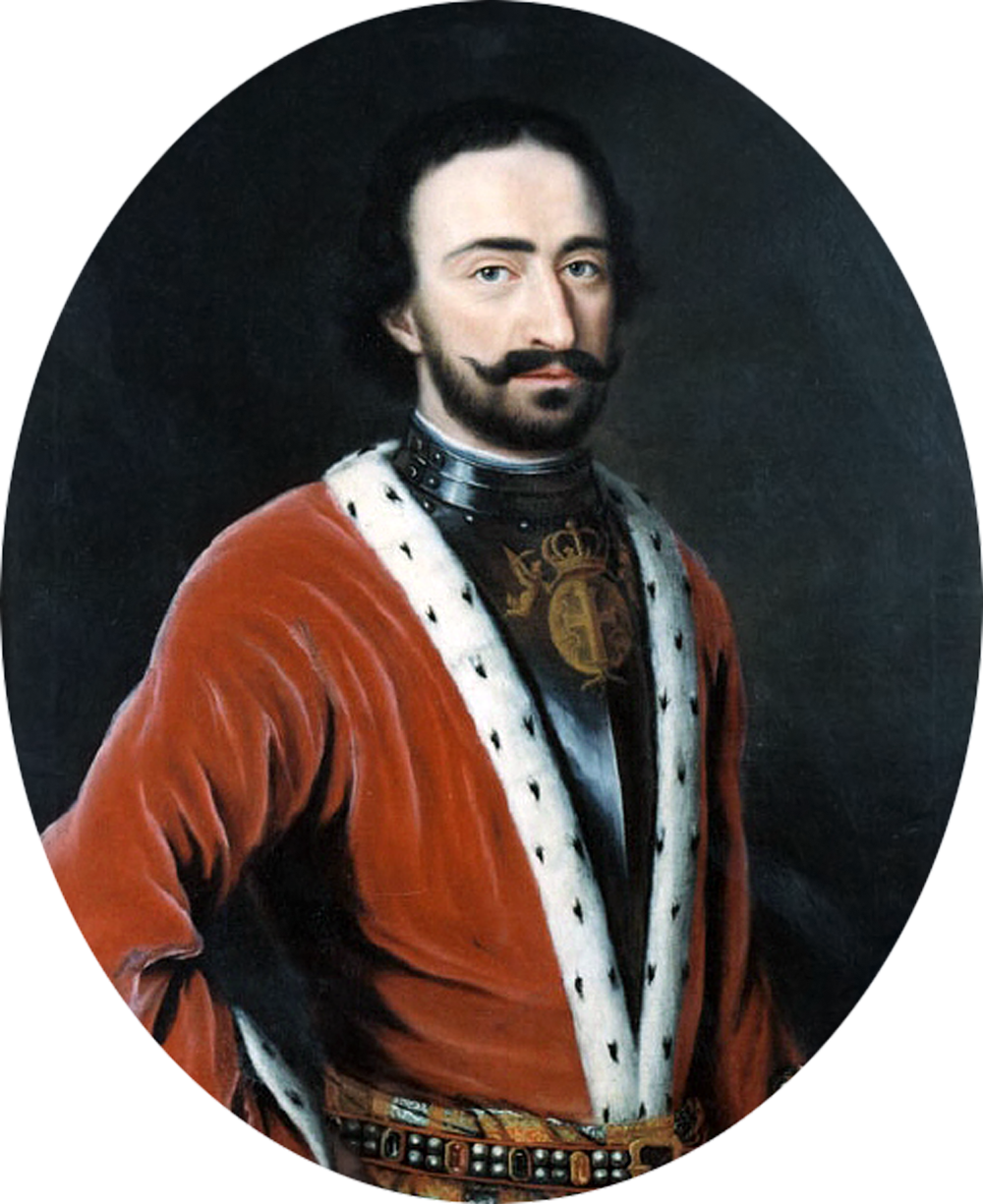 Alexander Bagration of Imereti, Prince of Georgia, Commander of the Russian Artillery at the Battle of Narva. Oil on canvas, 87 x 60 cm